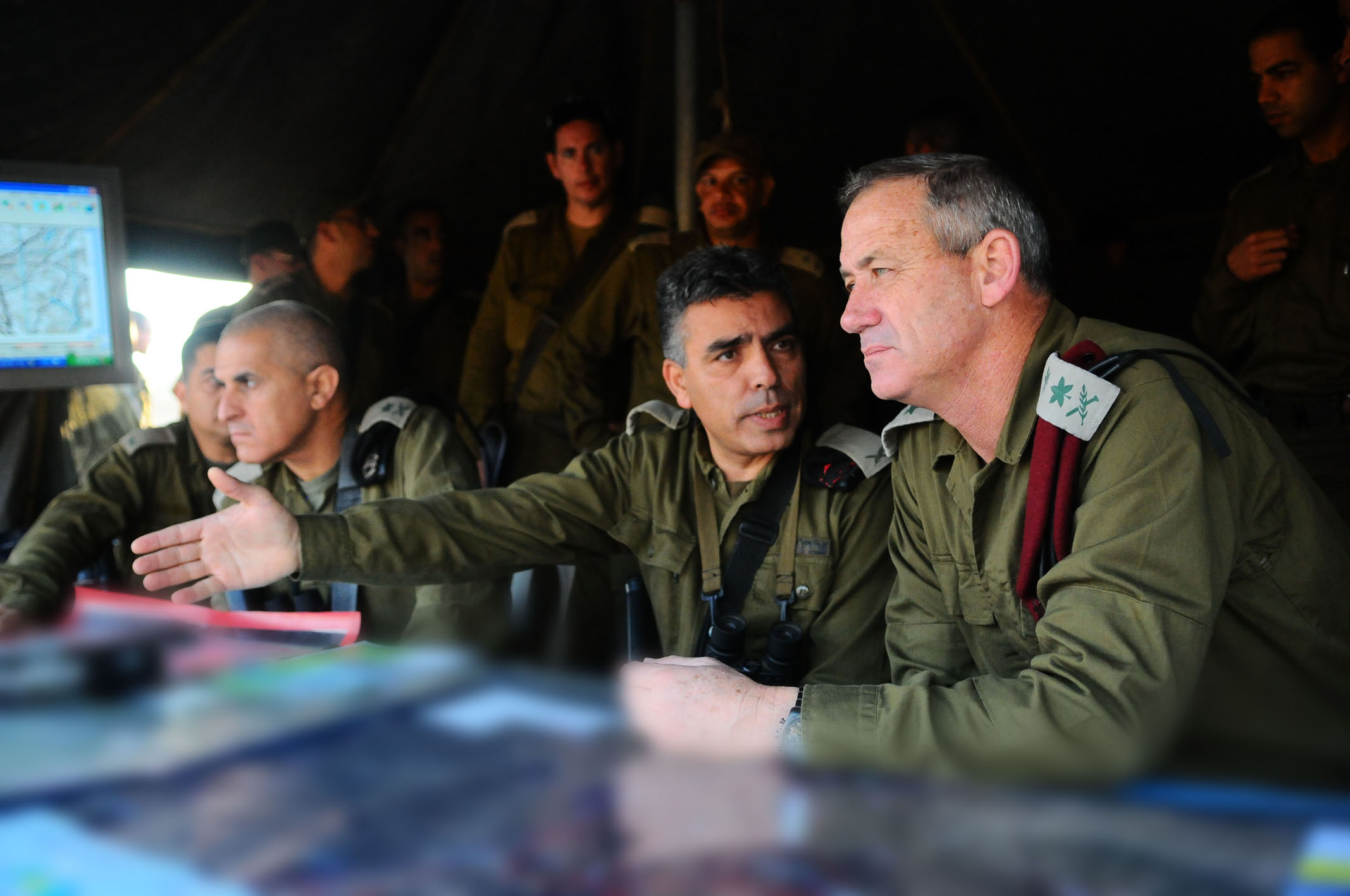 June 1st, 2011. IDF Chief of Staff, Lt. Gen. Benny Gantz, attends a military exercise held by the Kfir Brigade in an open area of the Jordan Valley. The exercise, which included four of the brigade's battalions, is the peak of the brigade's months of training, intended to grant them the capacities to operate in all areas.